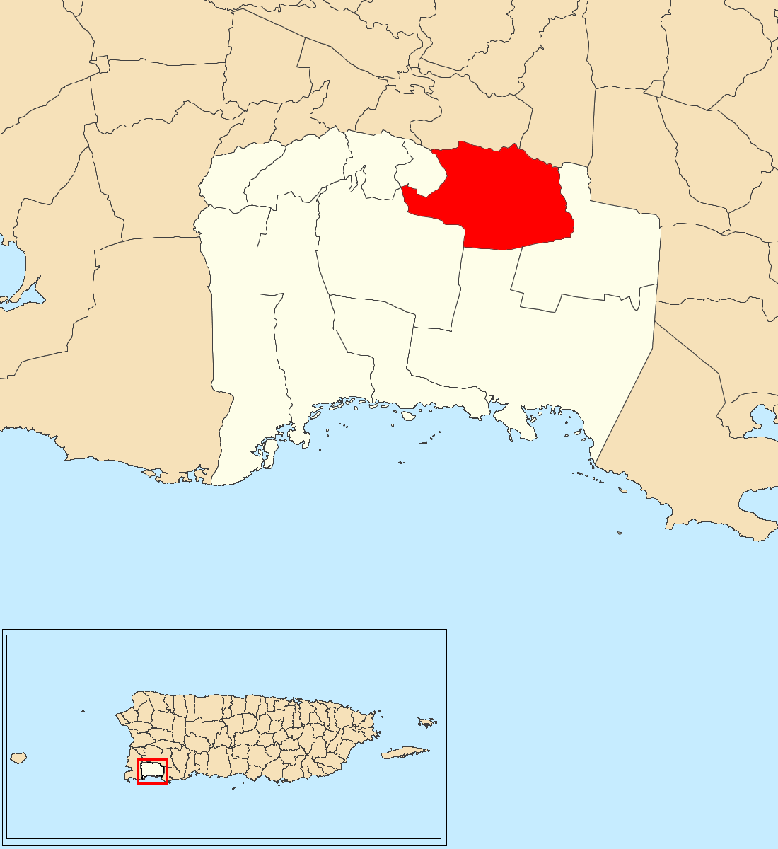 Lajas Arriba, Lajas, Puerto Rico locator map